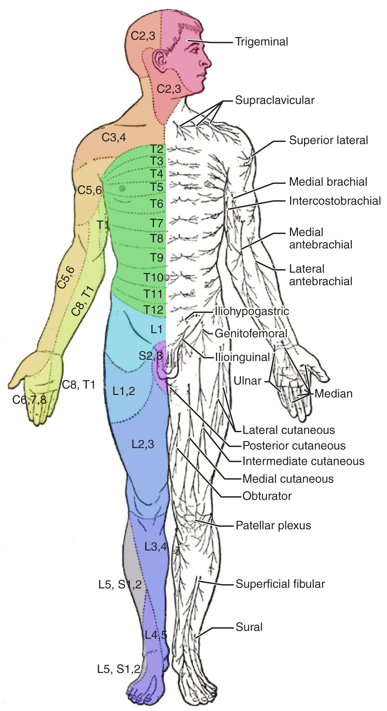 Version 8.25 from the Textbook OpenStax Anatomy and Physiology Published May 18, 2016 Version 8.25 from the Textbook OpenStax Anatomy and Physiology Published May 18, 2016